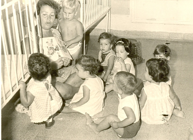 The nurse spends time with kibbutz children in the children's house. Kibbutz Afikim, Jordan Valley, Israel, 1960's